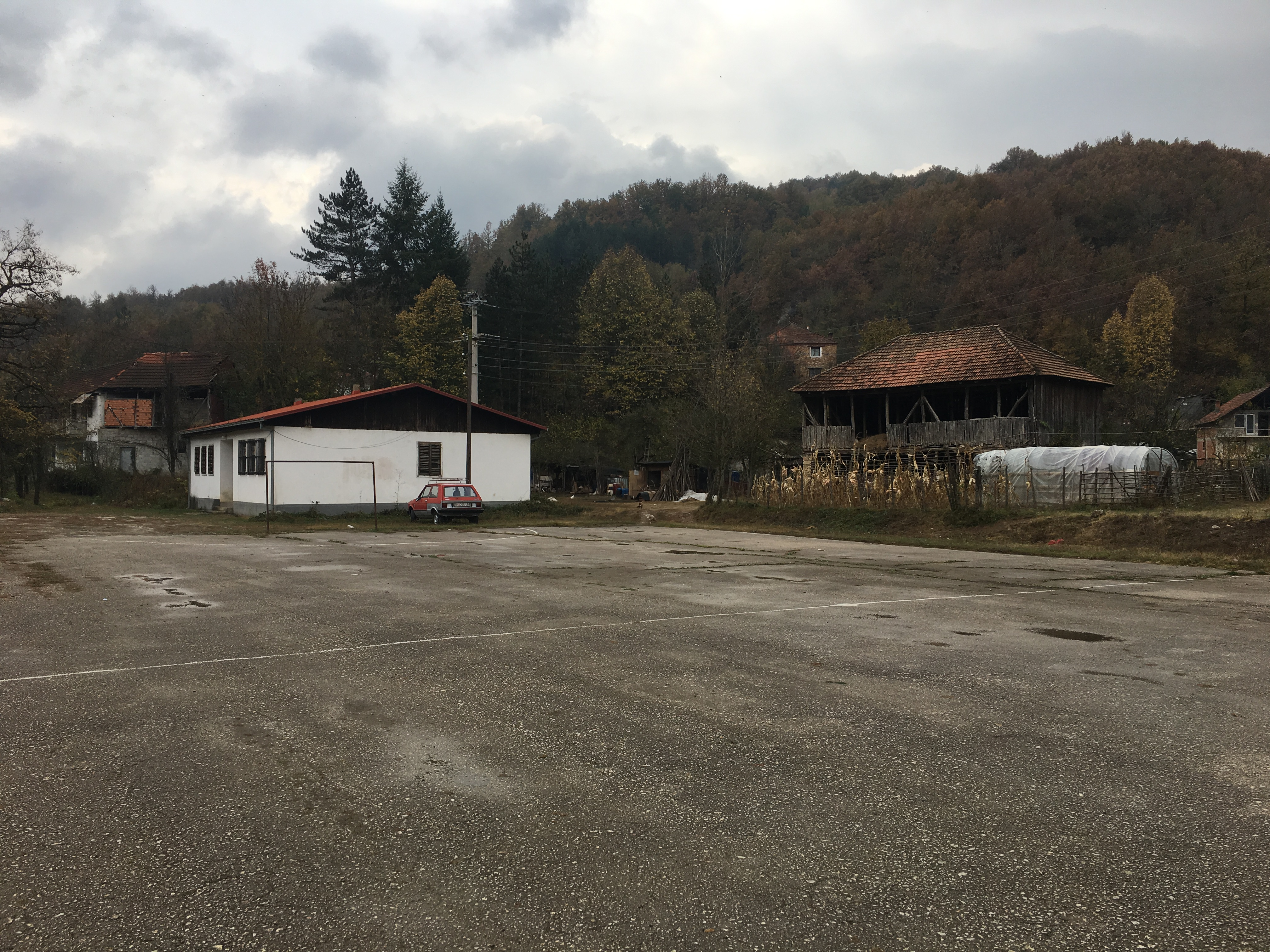 Wikiexpedition to Kopačka